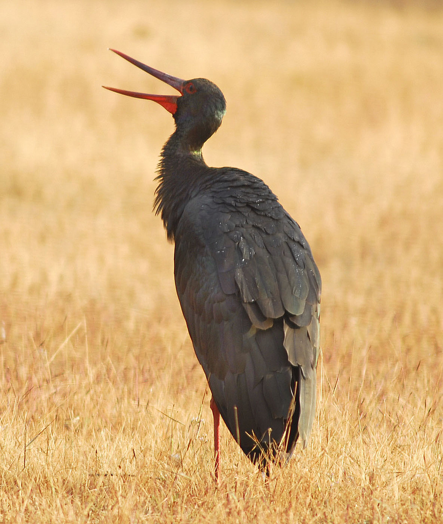 Ciconia nigra, Kanha-Bandhavgarh, Madhya Pradesh, India (where not very common)